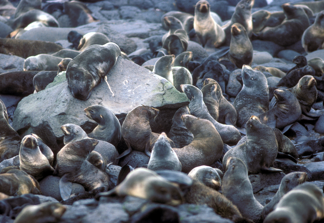 St. Paul Island fur seal colony, Pribilofs.